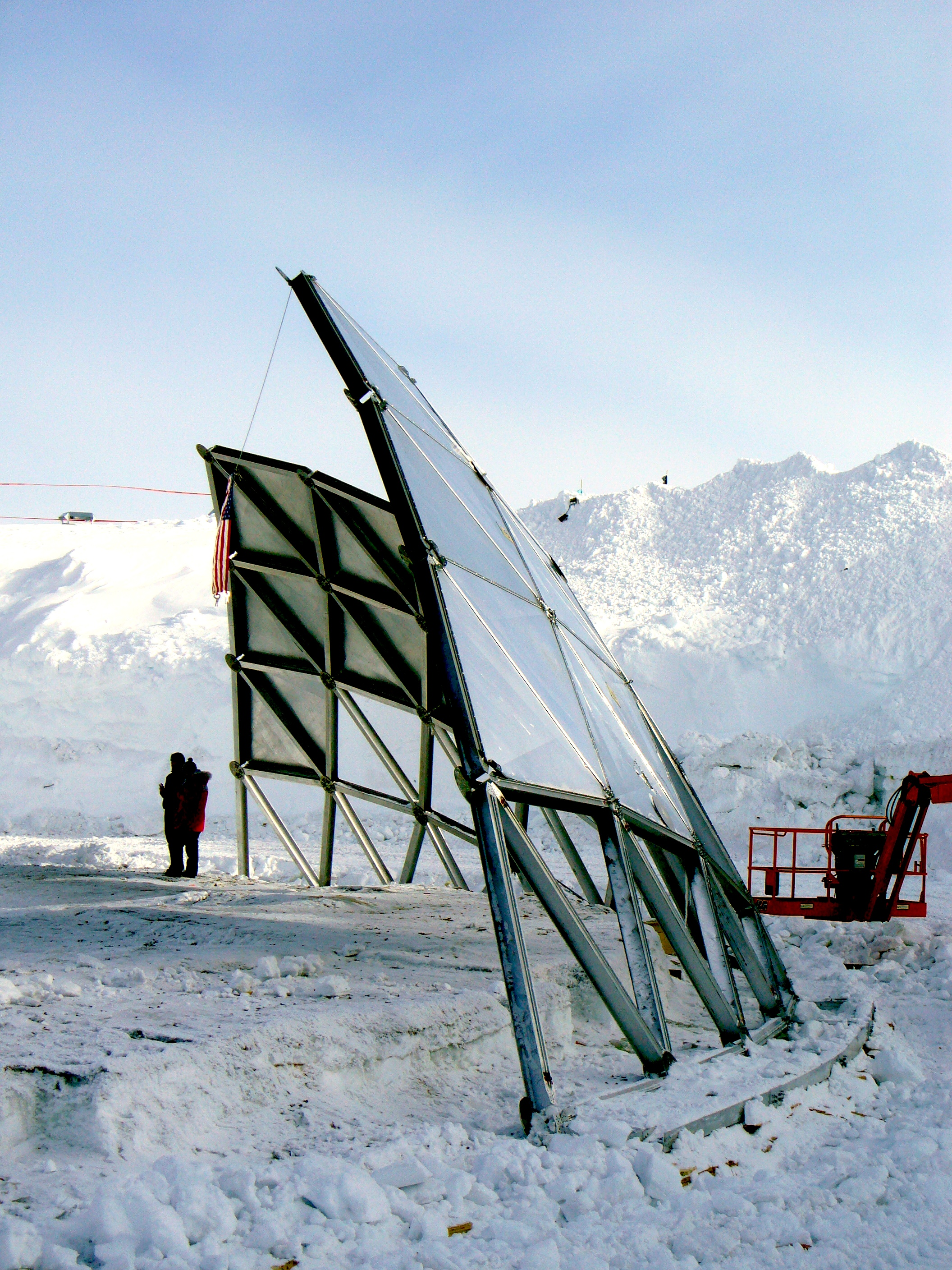 Last section of the dome built at Amundsen-Scott South Pole station in 1975 by US Navy Seabees, and dismantled during the 2009-2010 summer season. Photo taken just after the official group photo, about 7:30 pm. Last section was removed the next day.